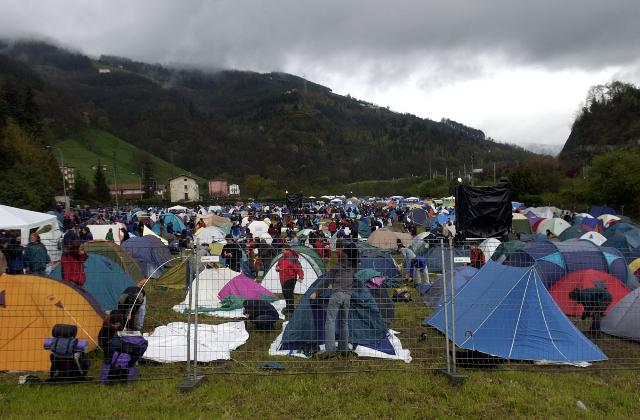 Gazte Topagunea '04, Itsasondo. Over 20.000 basque youth independentists made a 4 day meeting in Itsasondo, Gipuzkoa.